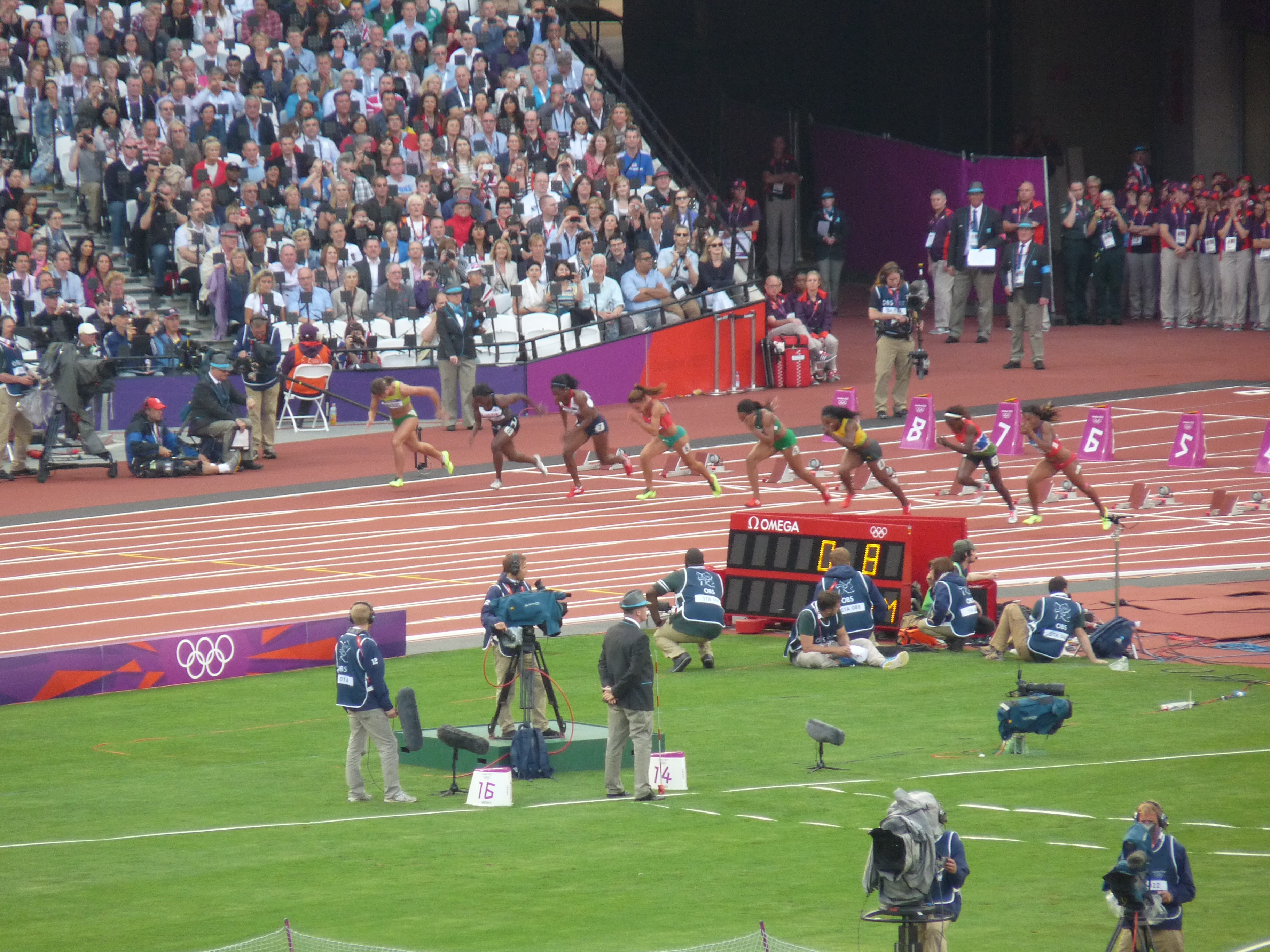 Women's 100m Heat Start, Lina Grincikaité, Phobay Kutu-Akoi, Abiodun Oyepitan, Ivet Lalova, Gloria Asumnu, Veronica Campbell-Brown, Saruba Colley, Yomara Hinestroza